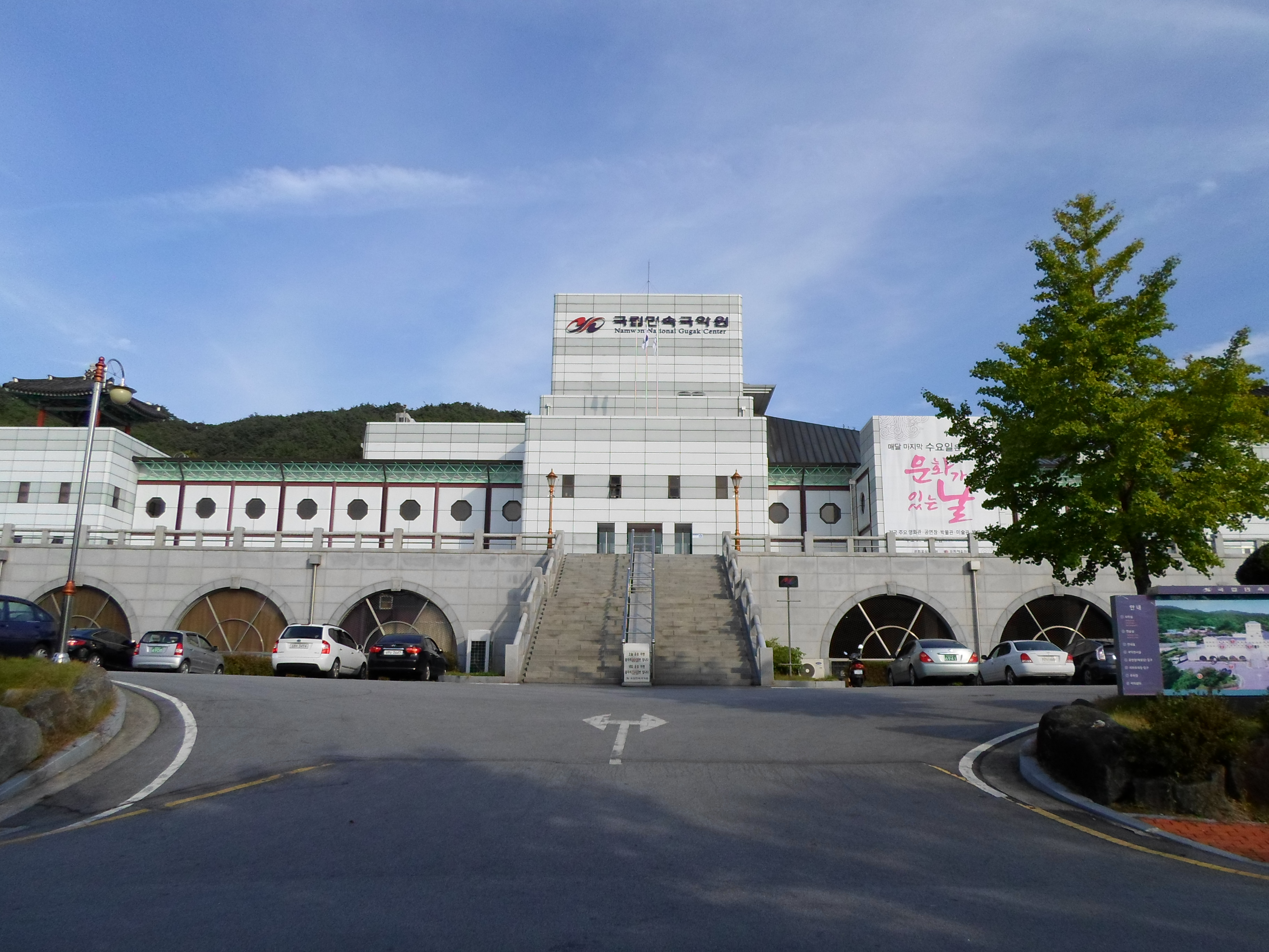 국립민속국악원.